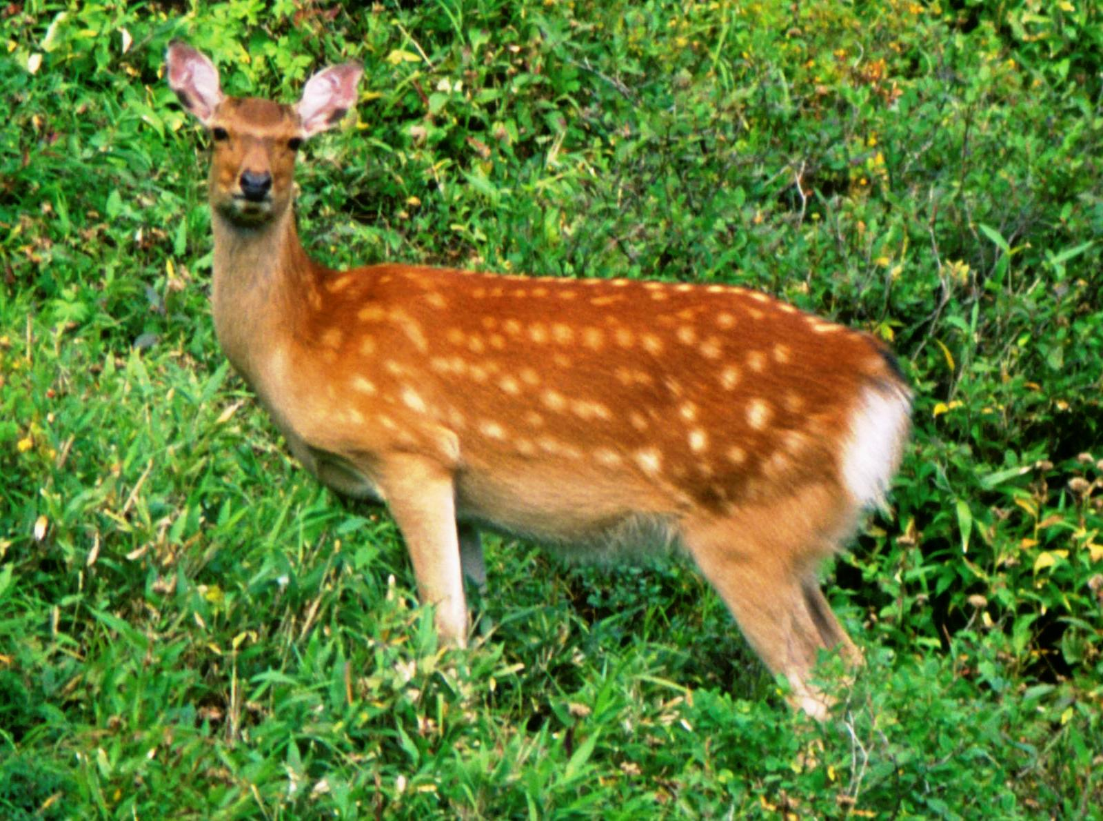 Cervus nippon yesoensis in Mount Ishikari